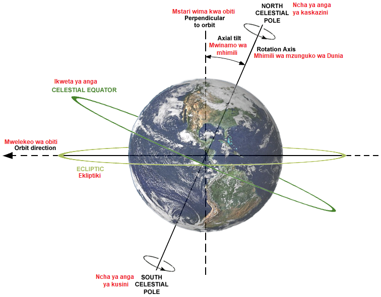 Description of relations between Axial tilt (or Obliquity), rotation axis, plane of orbit, celestial equator and ecliptic. Earth is shown as viewed from the Sun; the orbit direction is counter-clockwise (to the left).